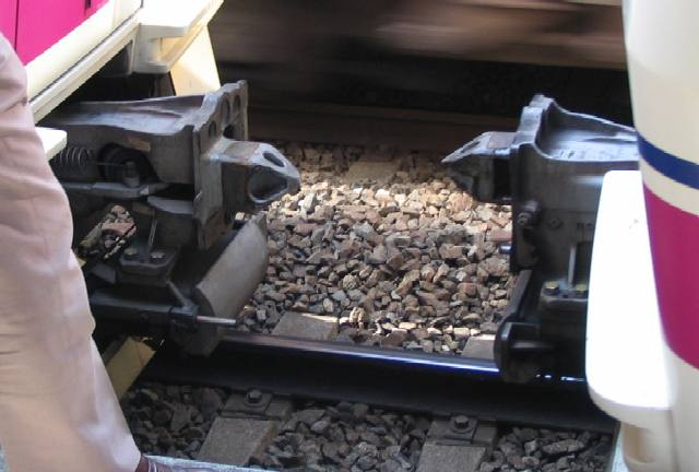 Scharfenberg coupler and electical connectors on a Keio 8000 Driving Trainer, uncoupled. Upper structure is a Scharfenberg coupler while lower is electical connectors. The connecotors are covered with curved shell which moved by pushing a pin which is shown on the coupler on the left hand side train. at Takahatafudō Station